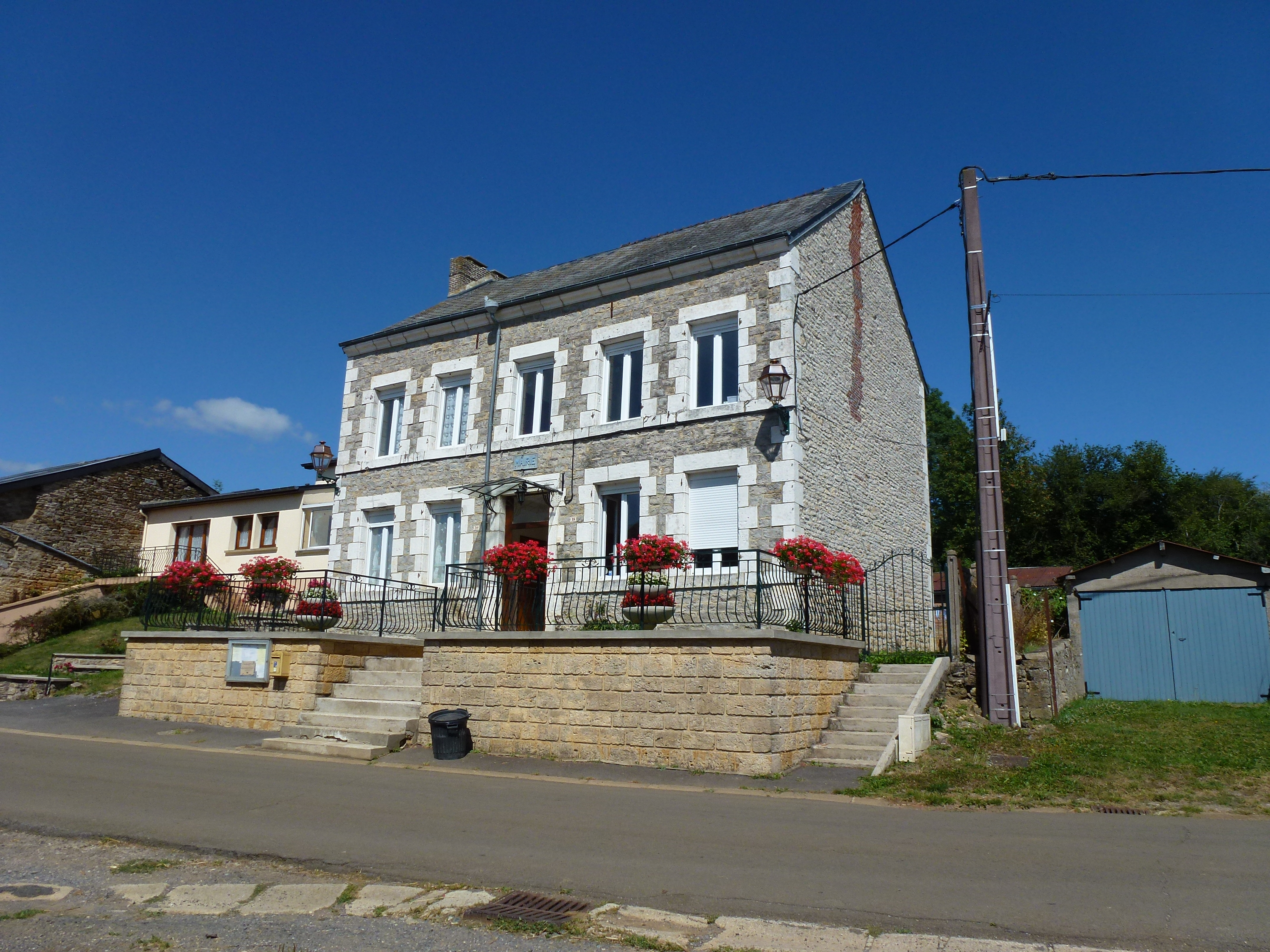 Cernion (Ardennes) mairie